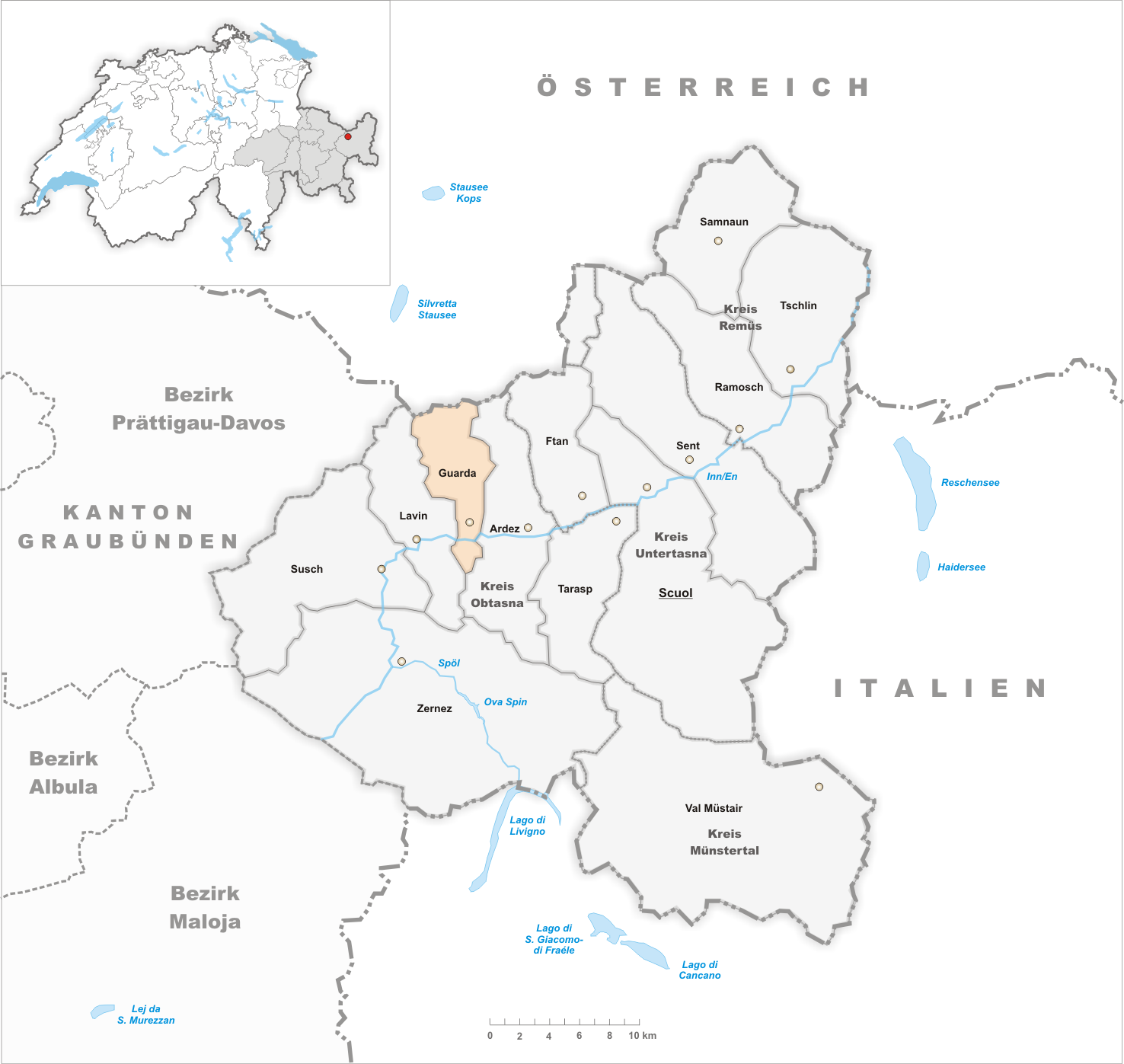 Municipality Guarda